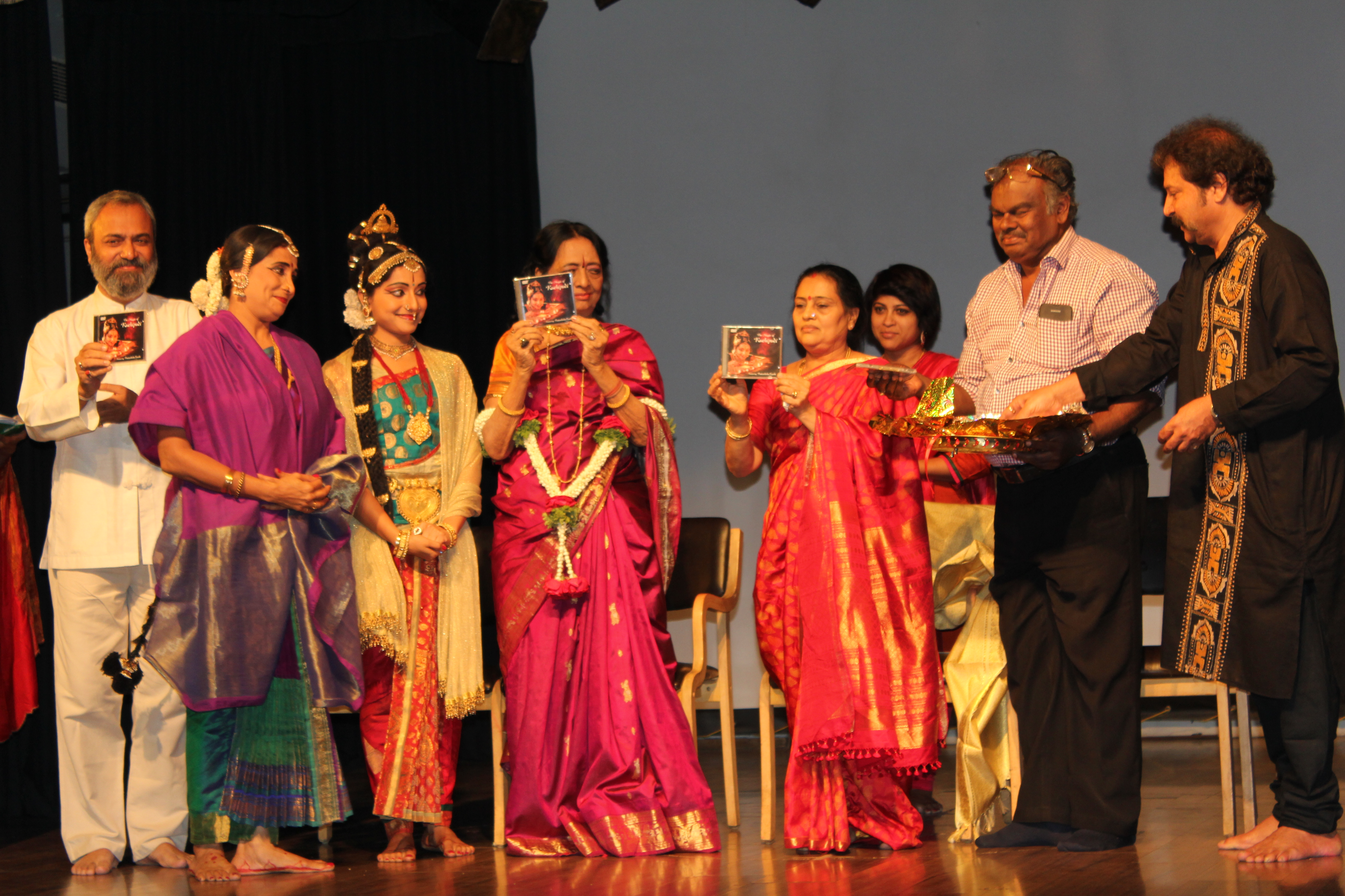 The Magic of Kuchipudi dance DVD featuring Prateeksha Kashi produced by Shambhavi Dance Theatre released by Renowned Dansuse Padmabhushan Dr. Yamini Krishnamurthy as a part of Nayika-Excellence Personified on the ocassion of Woman's Day on 8th March 2014!!!